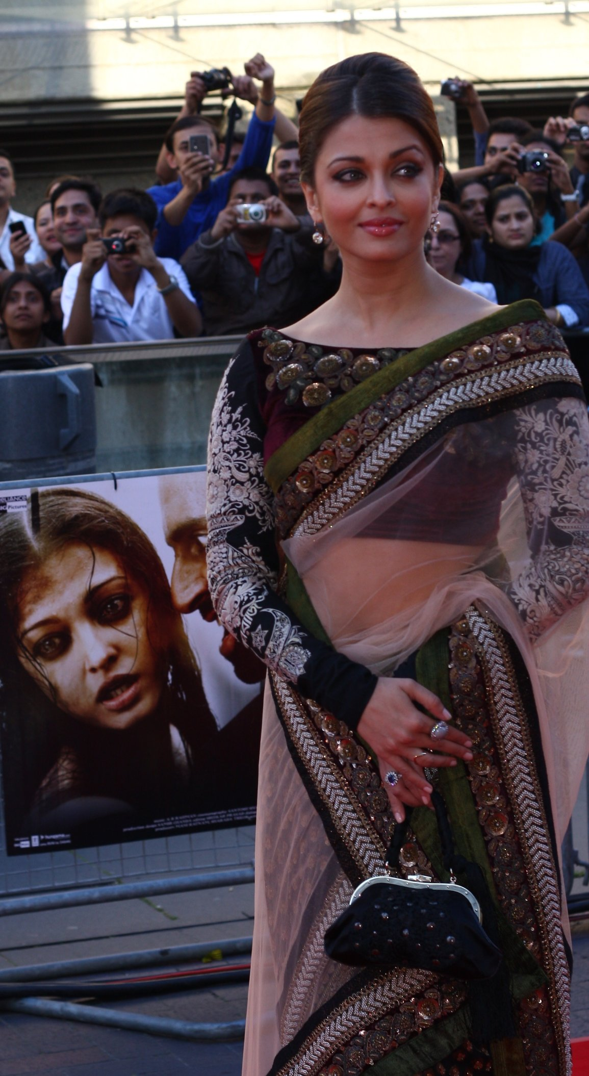 aishwarya at London primiere of Raavan